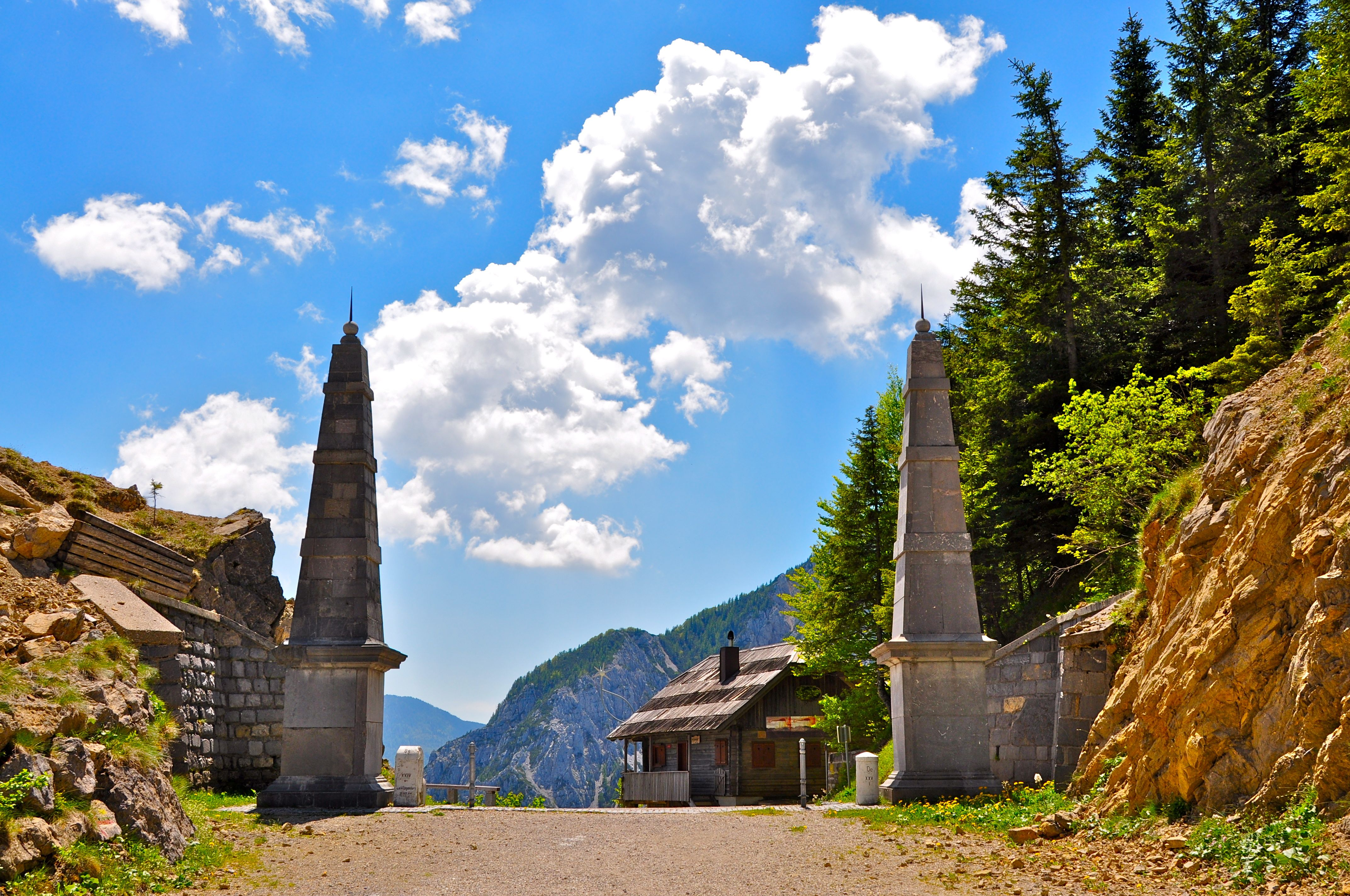 Mountain pass "Old Loibl" with two obelisks marking the Austrian/Slovenian borderline, Loibltal, municipality Ferlach, district Klagenfurt Land, Carinthia, Austria